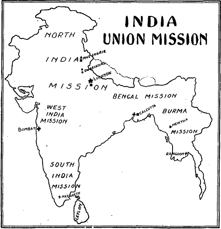 This drawing of Southern Asia shows the missions run by the SDA Church around 1912